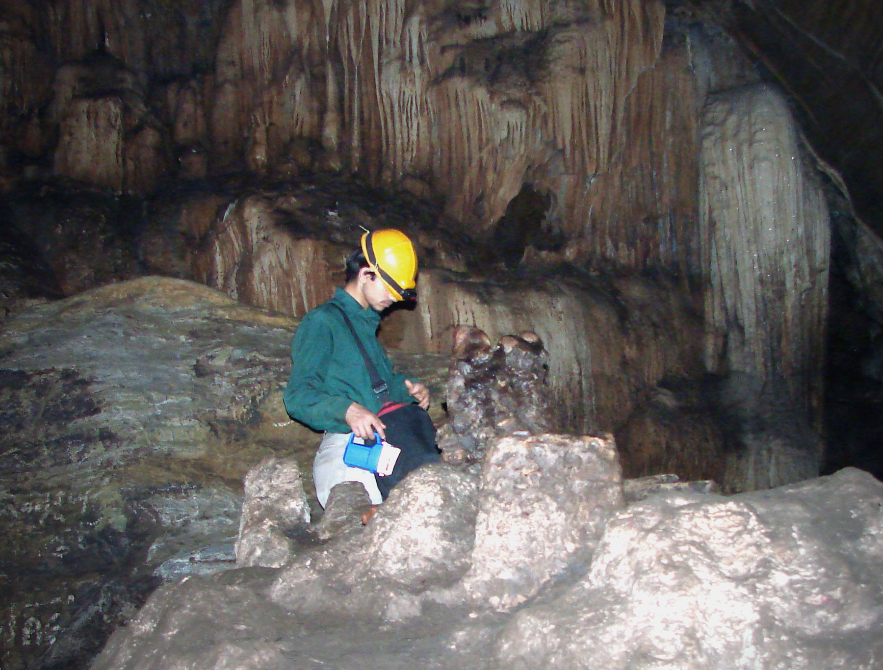 The biospeleologist in search of biodiversity inside the cave